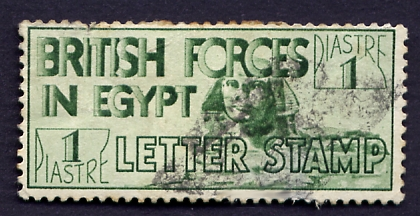 A military postage stamp used by the British forces in Egypt around 1935.